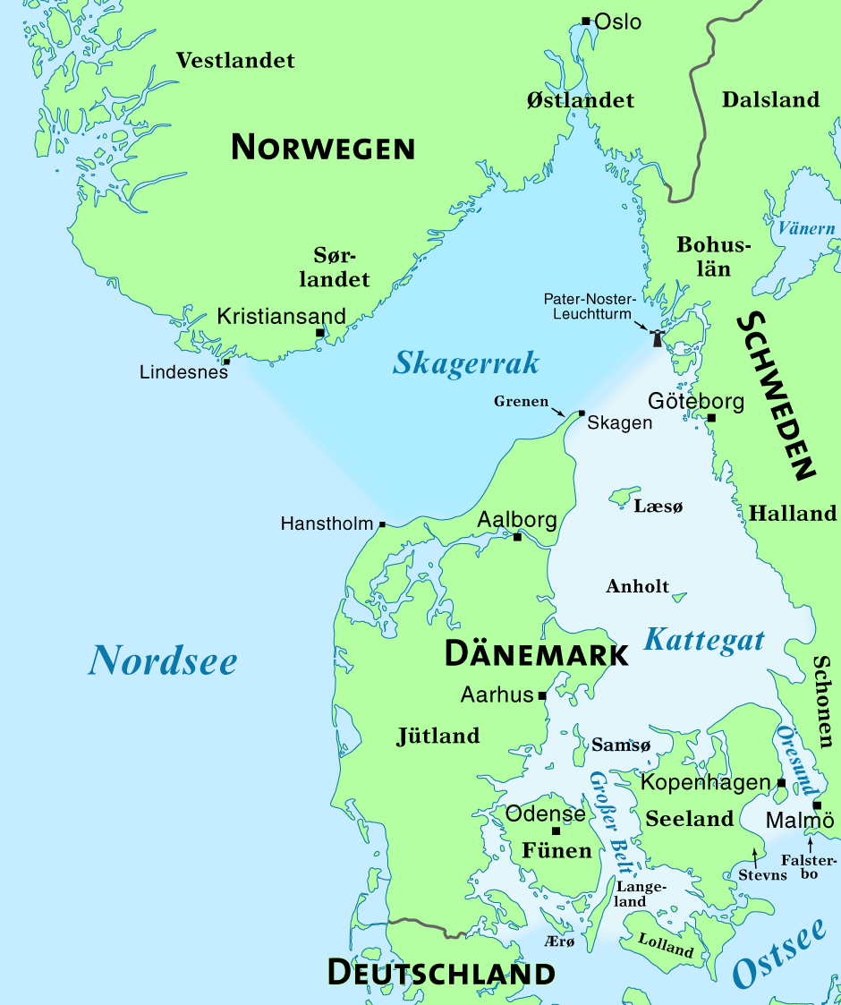 Map of Skagerrak and Kattegat